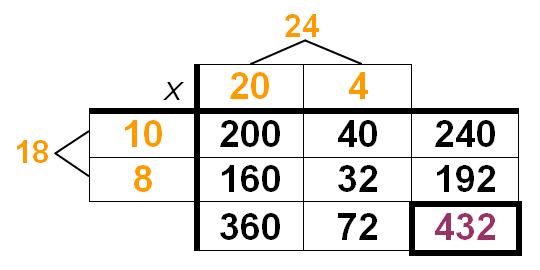 Multiplication